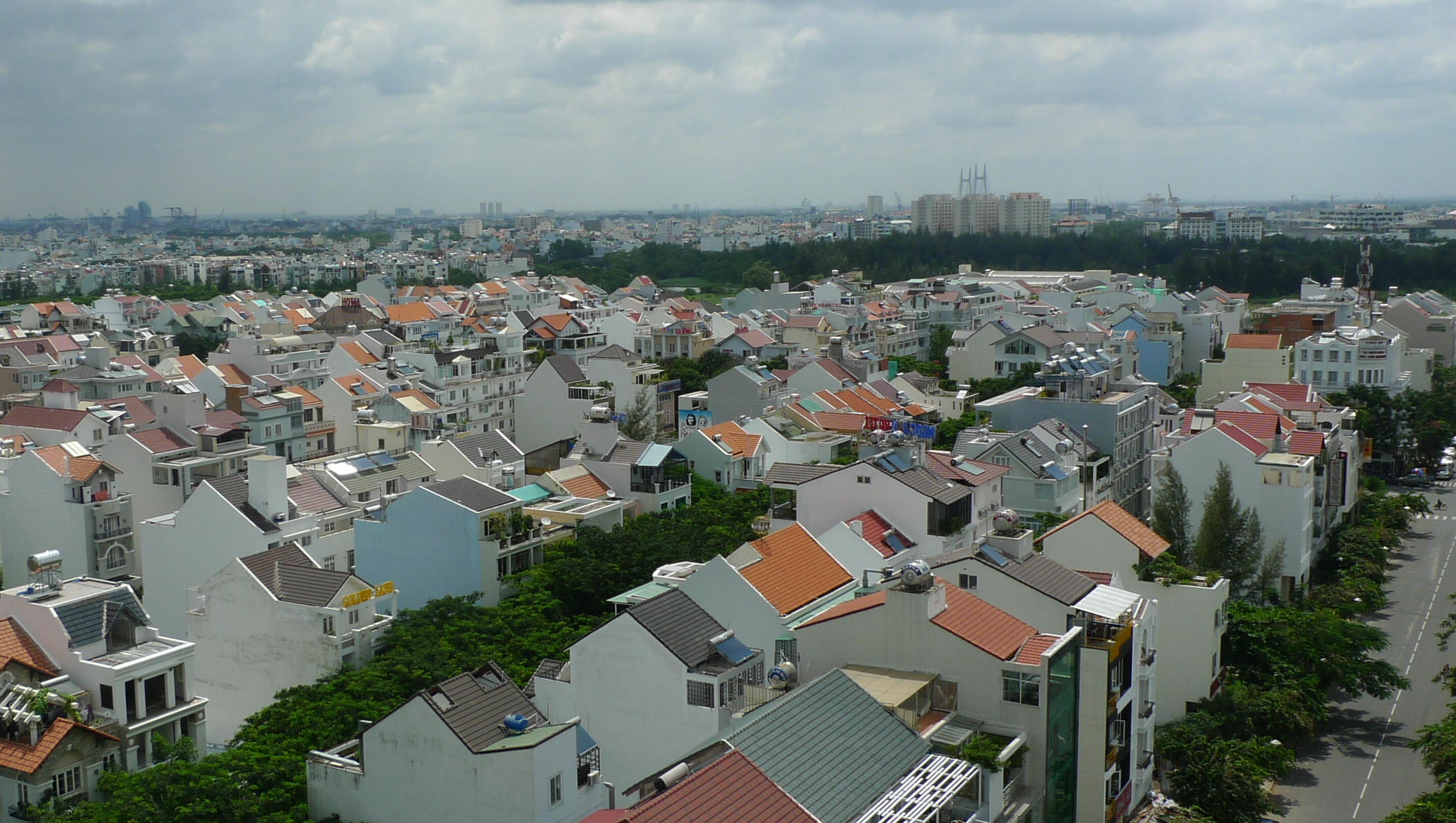 A view of Phu My Hung urban area in Ho Chi Minh City, Vietnam.